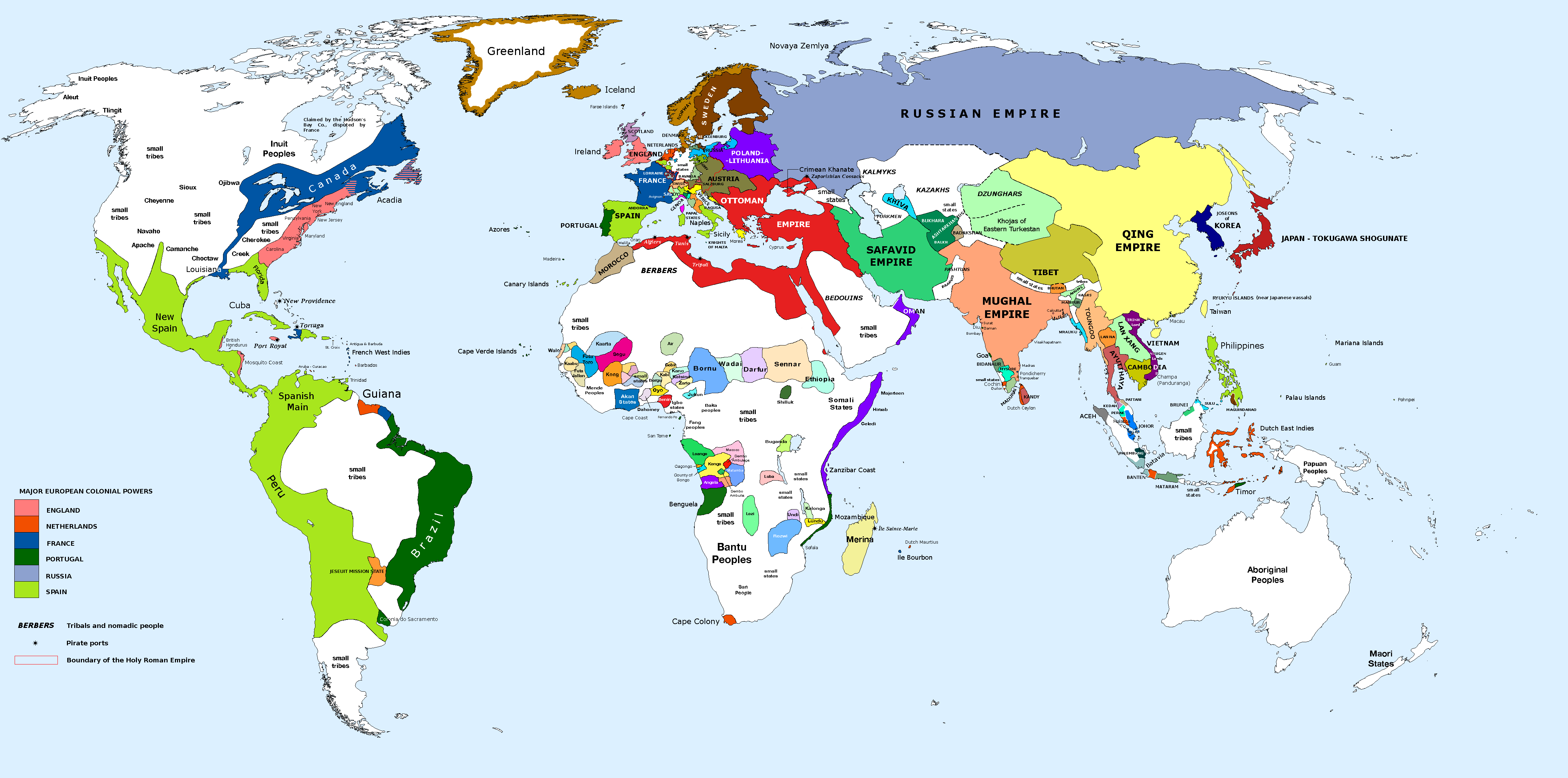 1700 AD: An illustrative map of the world in the early colonial period. The Mughal Empire in India is at its greatest territorial extent.